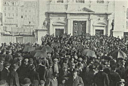 Demonstration in Lisbon, Portugal, against the banishment of the "Chinese of the Worms" (a pair of Chinese healers that were banned from illegally practising medicine), 1911.